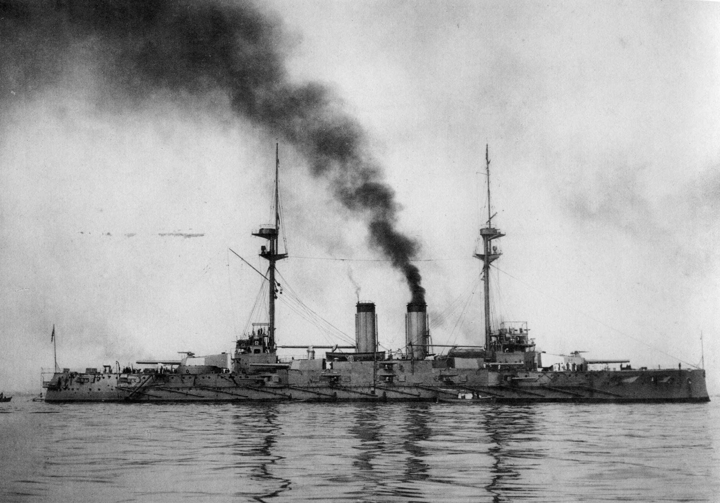 The Japanese battleship Katori